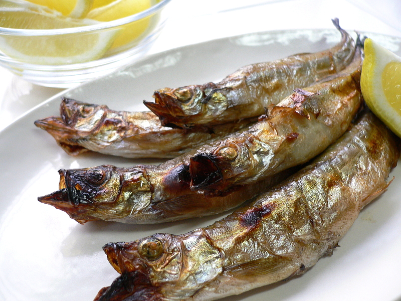 Grilled shishamo (Hypomesus japonicus).